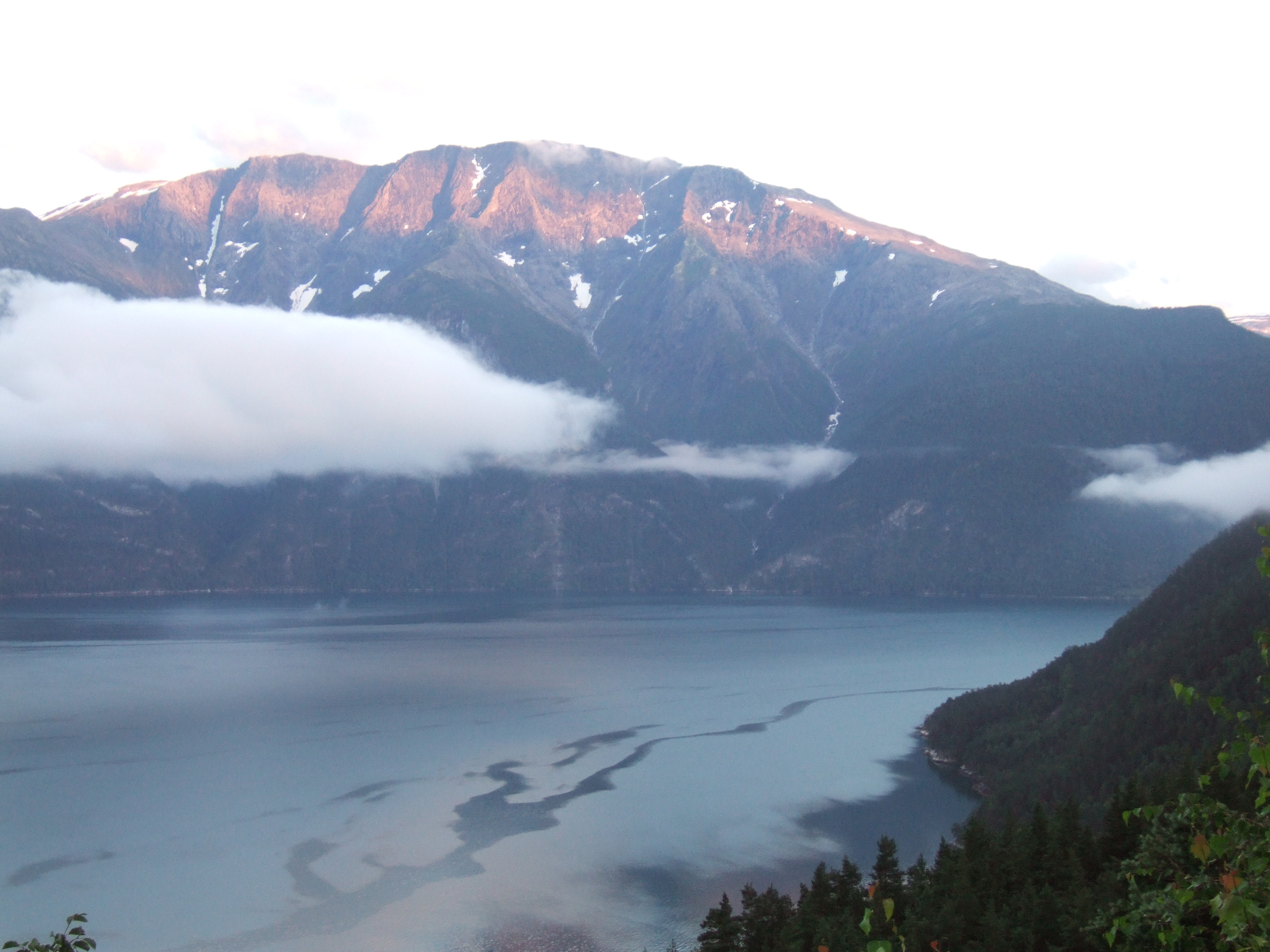 Mont Bleia at Sognefjorden, Norway